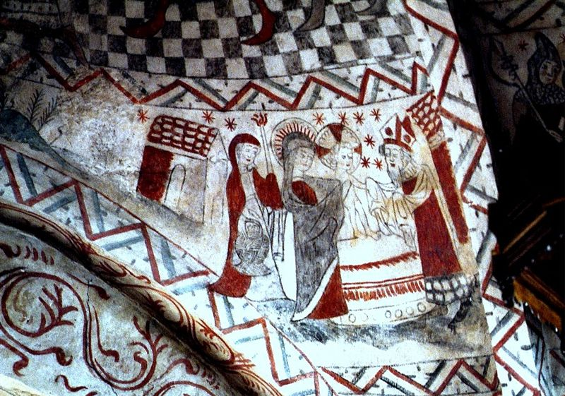 Frescoes by The Isefjord Master from apr. 1460-1480 in Tuse Kirke (church)